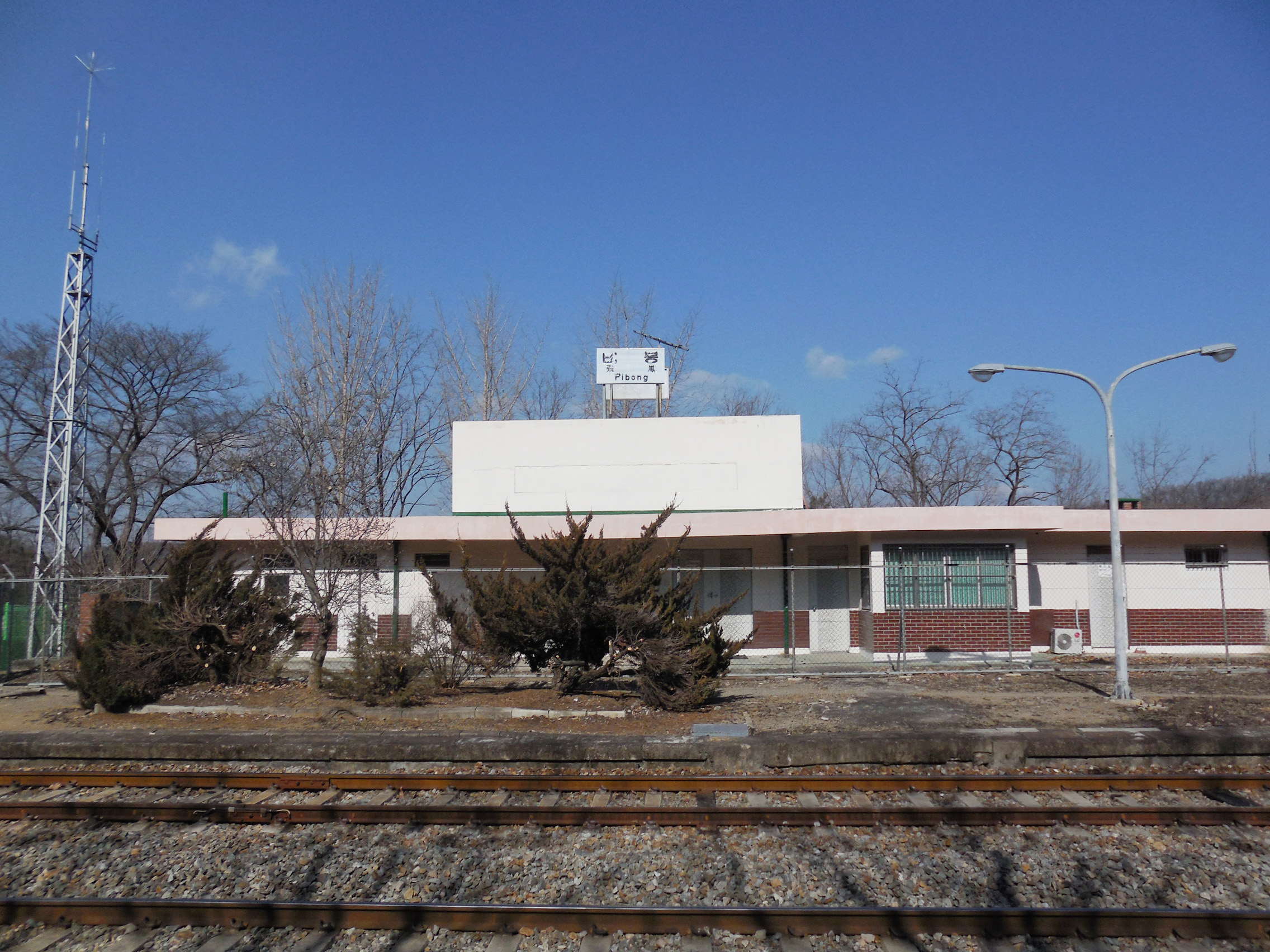 Korail Jungang Line Bibong Station.